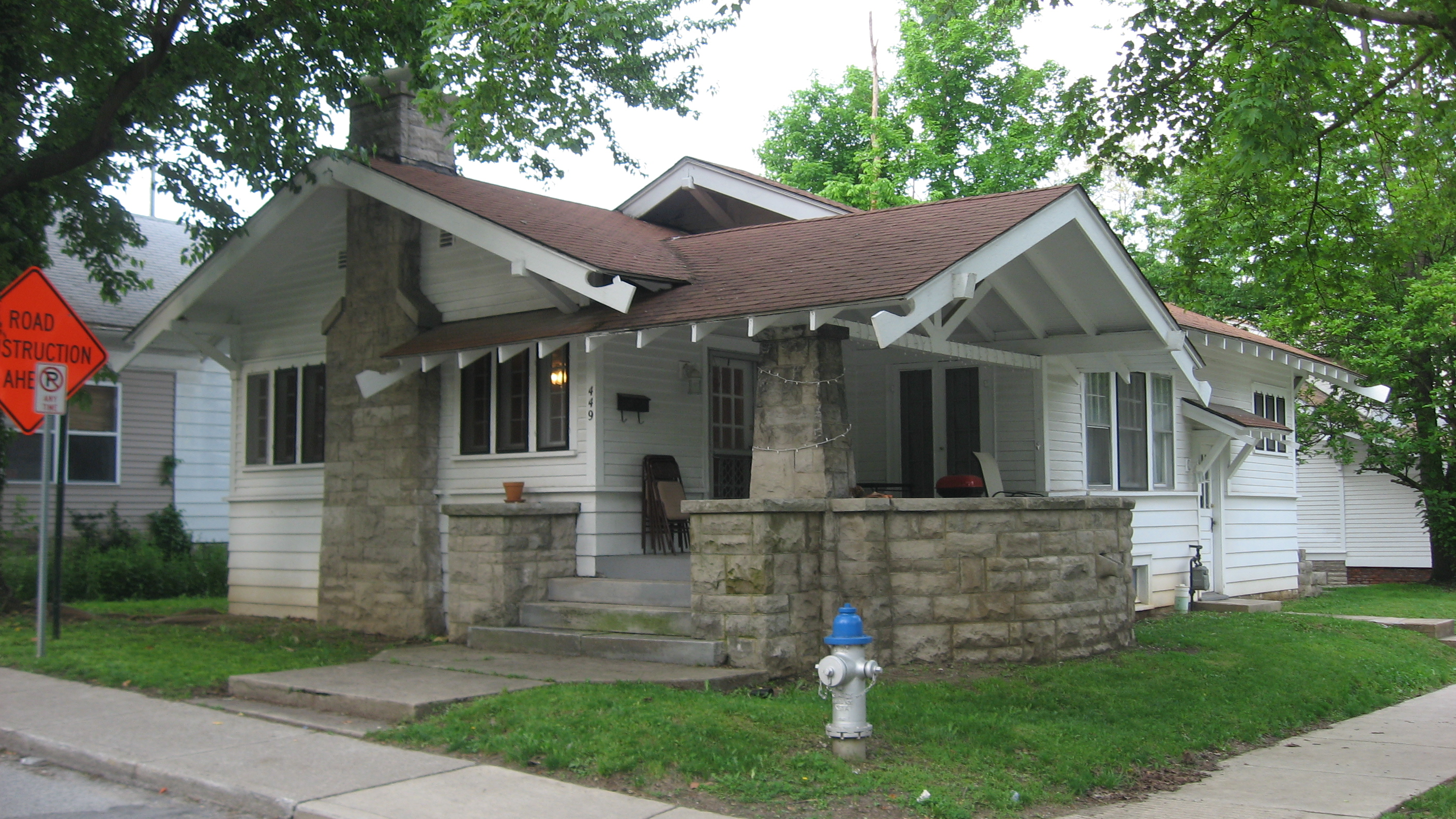 Front and southern side of the house located at 449 S. Henderson Street in Bloomington, Indiana, United States. Built in 1925, it is part of the locally-designated East Second Street Historic District.